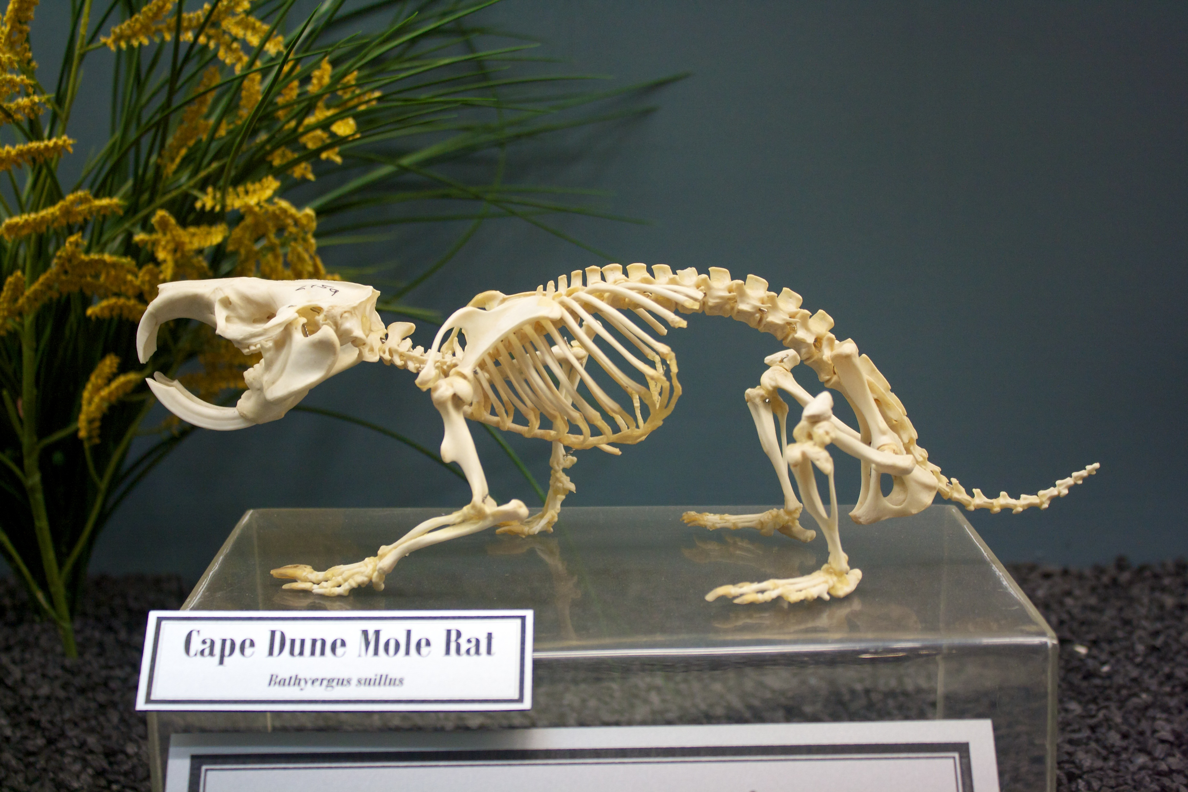 Skeleton of Cape Dune Mole Rat (Bathyergus suillus) at the Osteology Museum of Oklahoma